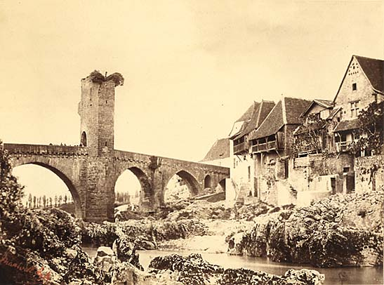 Farnham Maxwell-Lyte - Pont d'Orthez, Basses-Pyrénées.